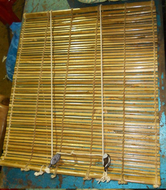 Bamboo mat